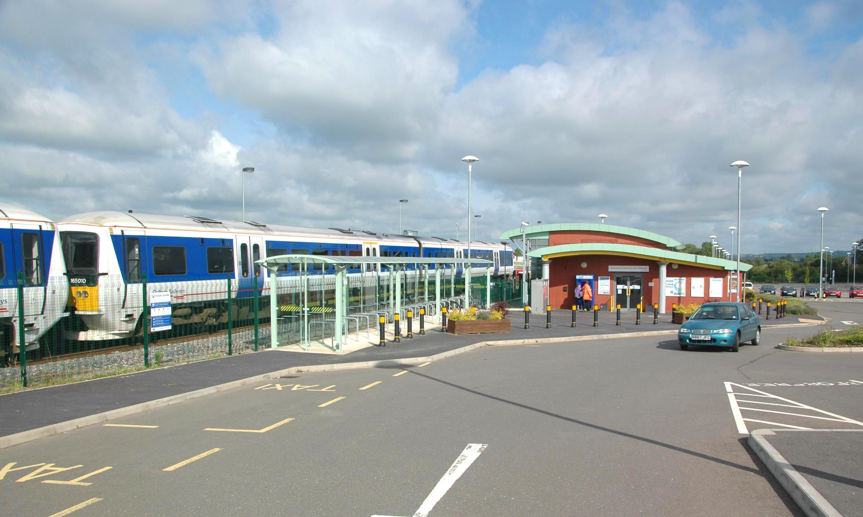 Aylesbury Vale Parkway railway station, Buckinghamshire, England: taxi rank, pedal cycle park and station building